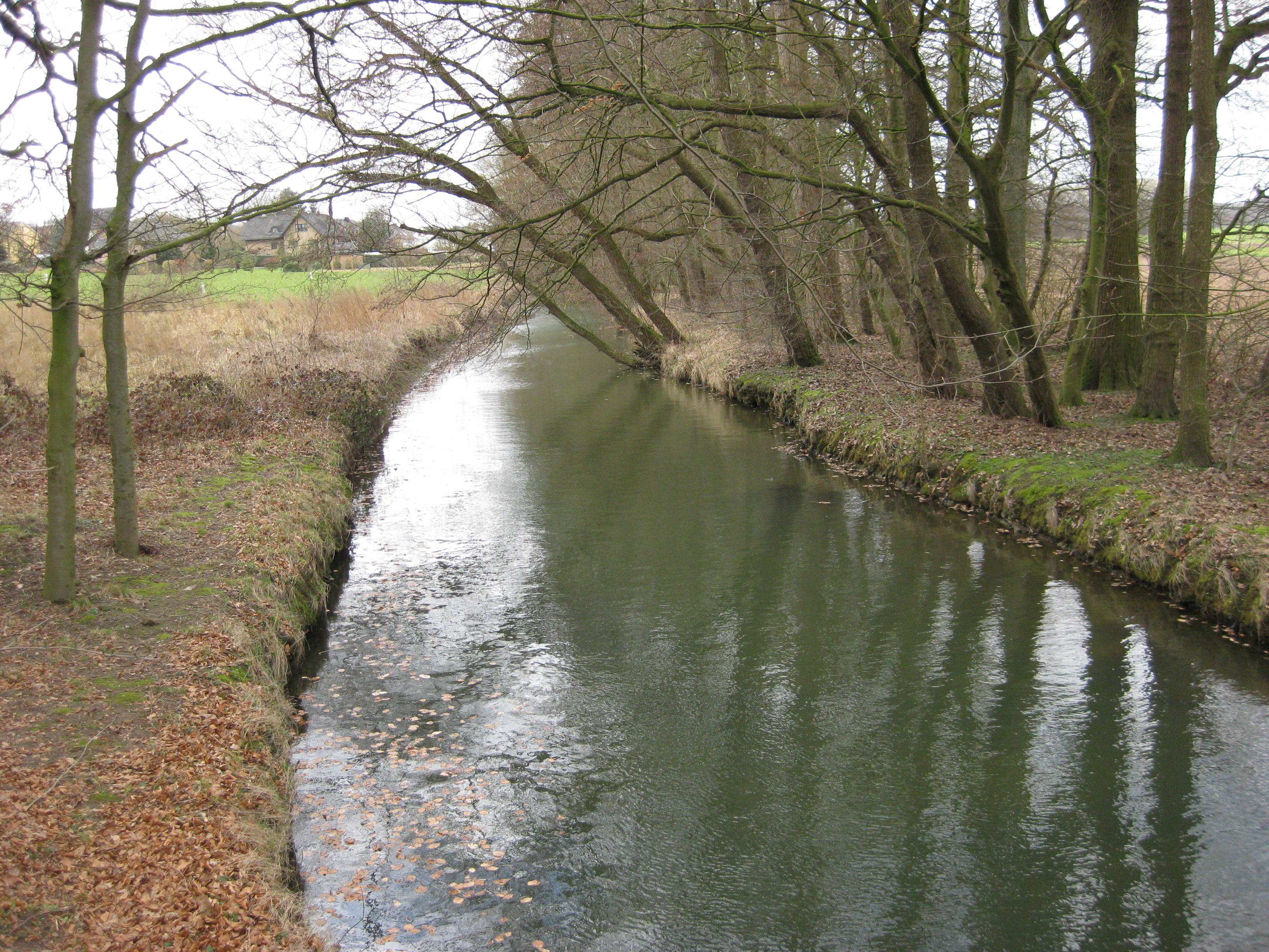 Warmenau in Spenge-Wallenbrück, the creek marks the border between North Rhine-Westphalia (left) and Lower Saxony (right) here